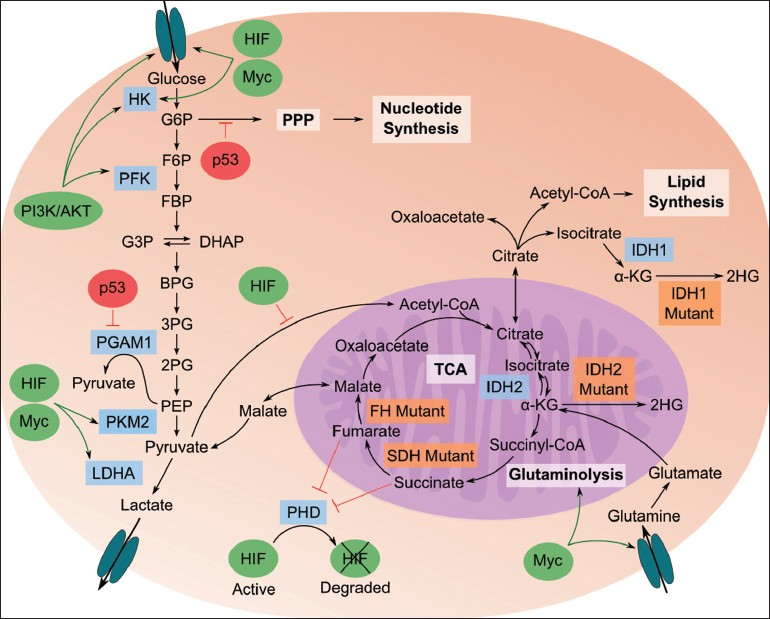 Illustration of important relationships between metabolome, proteome, and genome in cancerous cells. Glycolysis breaks down glucose into pyruvate, which is then fermented to lactate; pyruvate flux through the tricarboxylic acid (TCA) cycle is down-regulated in cancer cells. Pathways branching off of glycolysis, such as the pentose phosphate pathway (PPP), generate biochemical building blocks to sustain the high proliferative rate of cancer cells. Specific genetic and enzyme-level behaviors are described in the main text. Blue boxes are enzymes important in transitioning to a cancer metabolic phenotype; orange boxes are enzymes that are mutated in cancer cells. Green ovals are oncogenes that are up-regulated in cancer; red ovals are tumor suppressors that are down-regulated in cancer. Figure abbreviations: 2PG: 2-phosphoglycerate; 3PG: 3-phosphoglycerate; BPG: 1,3-bisphosphoglycerate; CoA: coenzyme A; DHAP: dihydroxyacetone phosphate; F6P: fructose-6-phosphate; FBP: fructose-1,6-bisphosphate; G3P: glyceraldehyde-3-phospate; G6P: glucose-6-phosphate; HK: hexokinase; LDHA: lactate dehydrogenase A; PFK: phosphofructokinase; PI3K: phosphatidylinositide 3-kinase